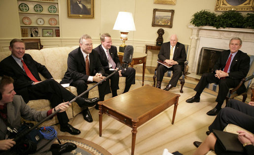 President George W. Bush and Vice President Dick Cheney meet with automotive CEOs Tuesday, Nov. 14, 2006, in the Oval Office. From left are: Ford CEO Alan Mulally, Chrysler Group President and CEO Tom LaSorda, and General Motors Chairman and CEO Rick Wagoner. White House photo by Kimberlee Hewitt